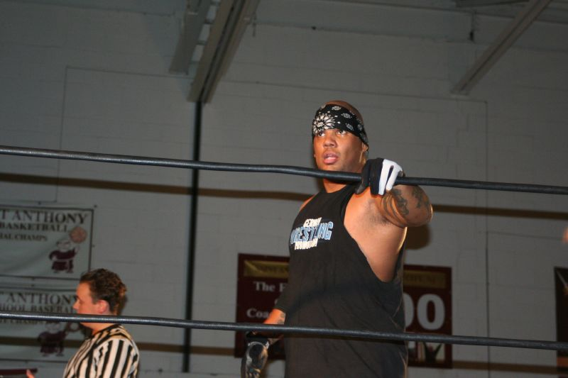 Professional wrestler Homicide (real name Nelson Erazo) at a JAPW on November 2008